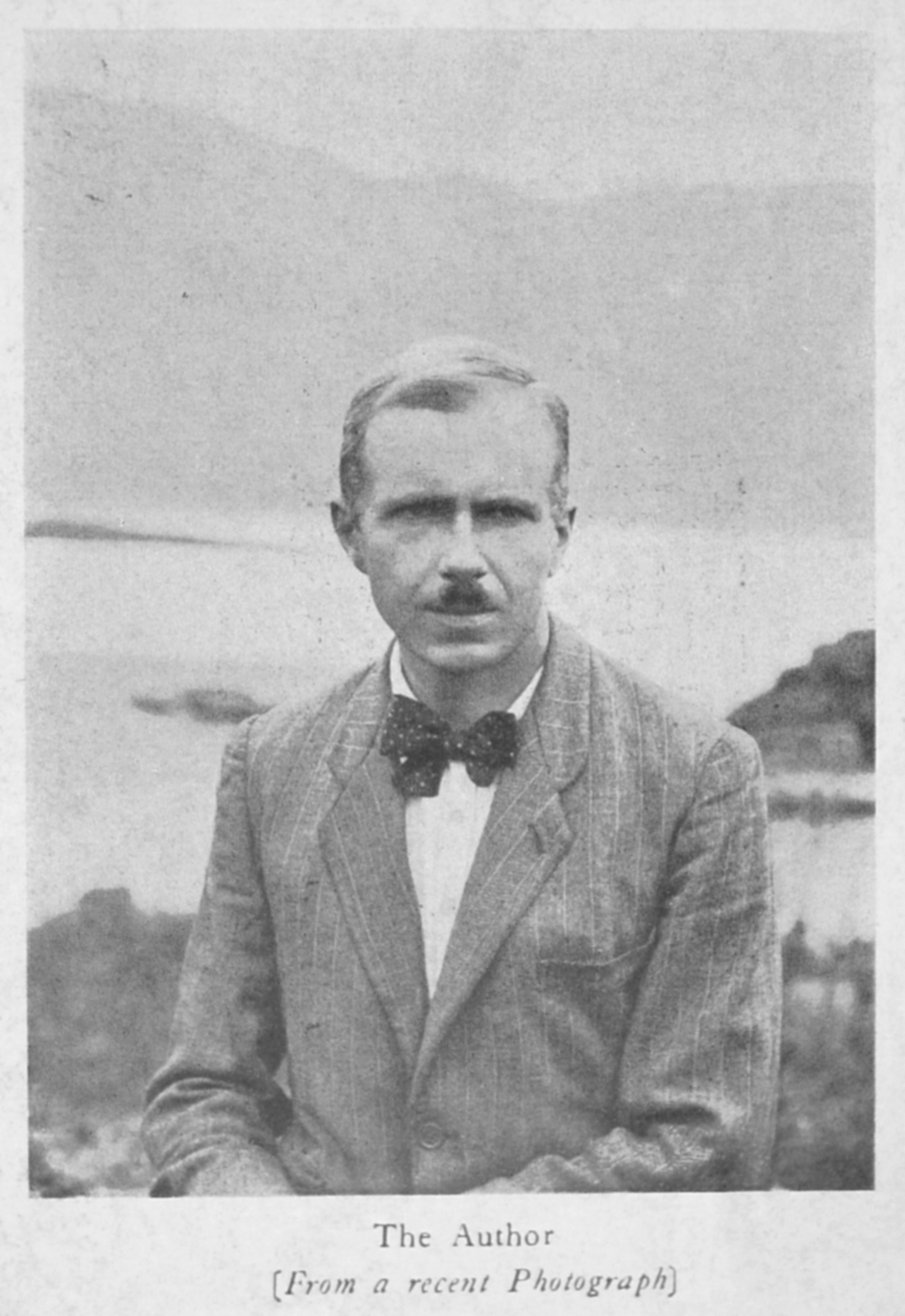 Recent photograph of English author and educator Walter Sherard Vines published in his book, Movements in modern English Poetry and Prose (Tokyo : Ohkayama Pub., 1927).